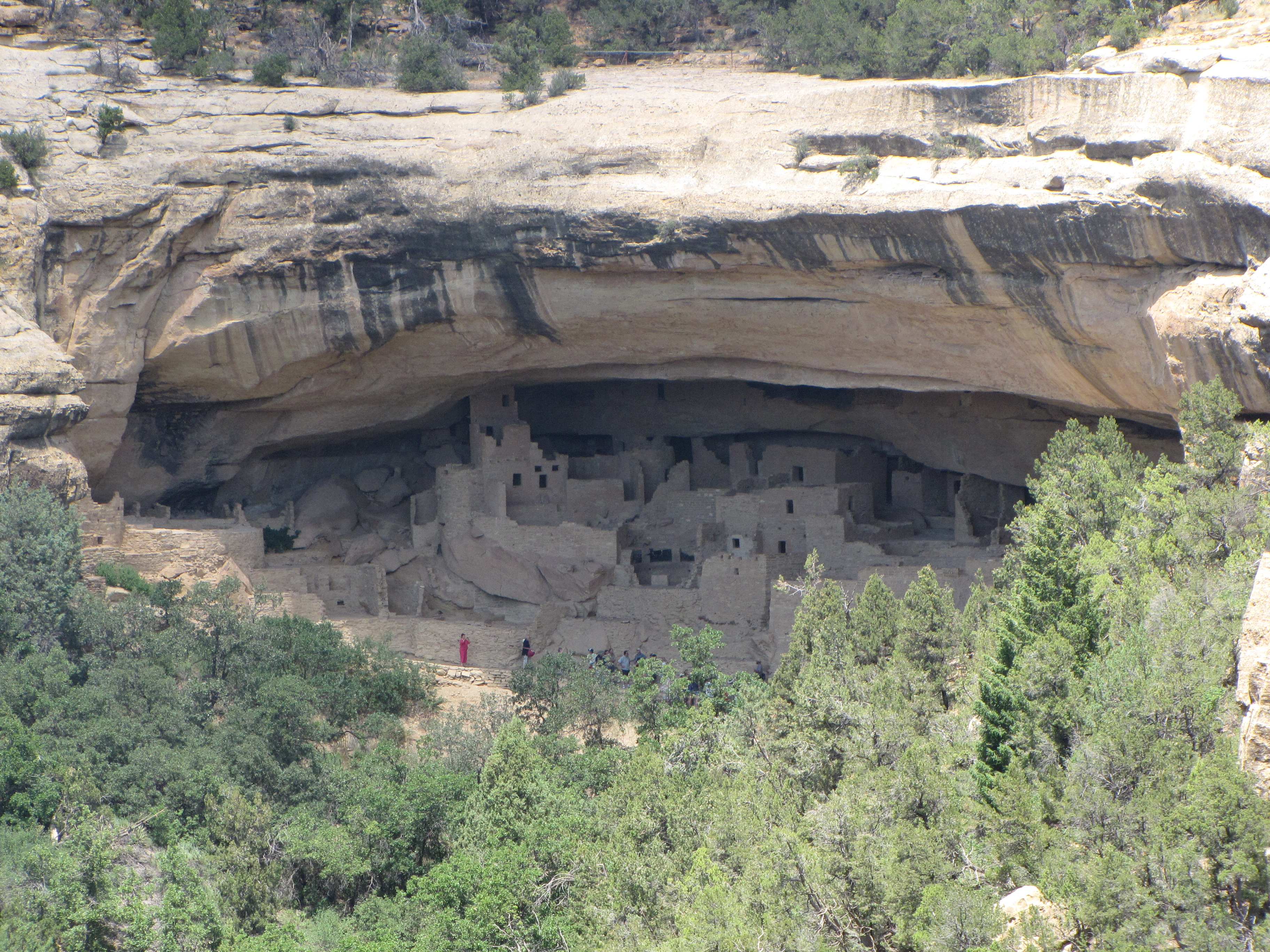 Mesa Verde National Park